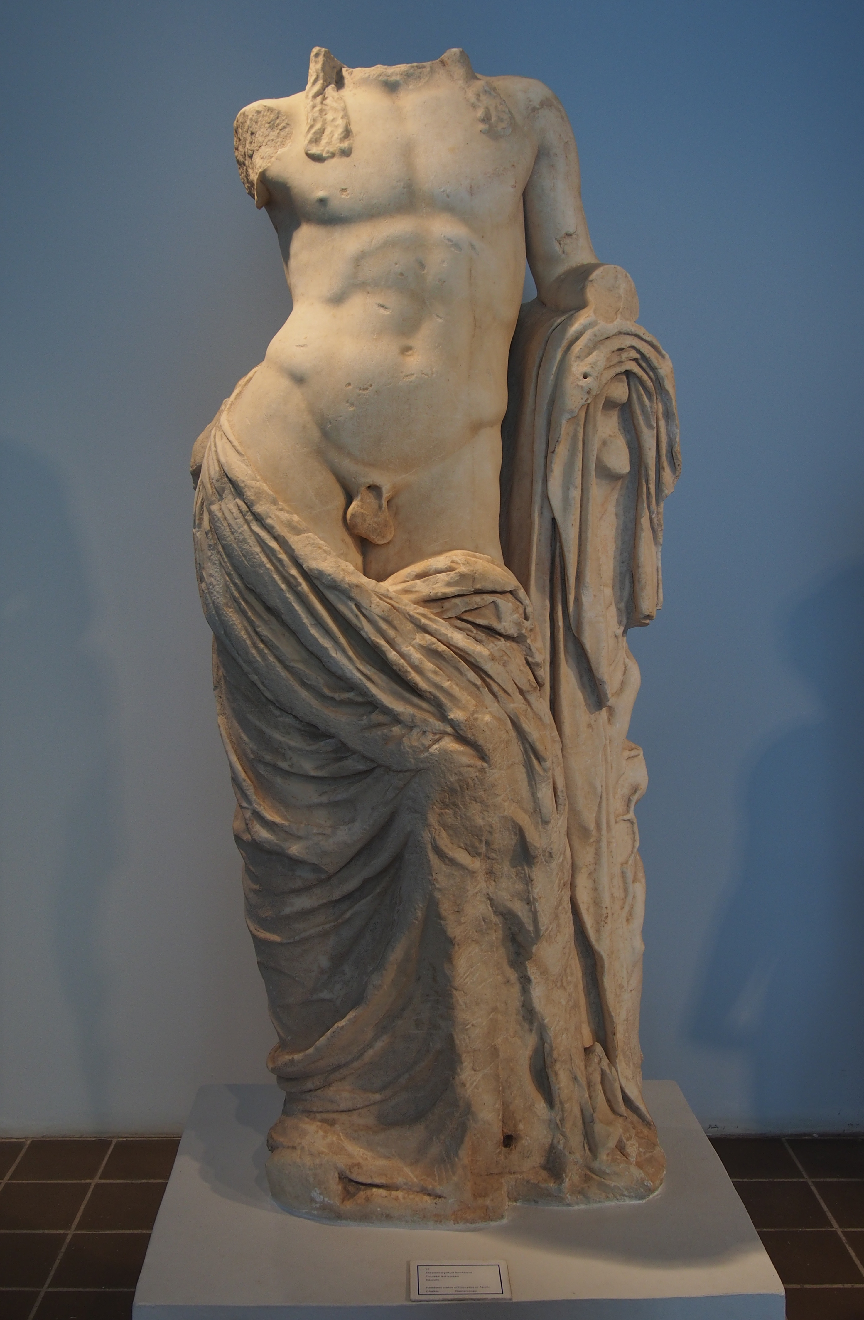 Headless statue of Apollon, roman copy. Found in Chalkida. Now is exhibited the Archaeological Museum of Chalkida.